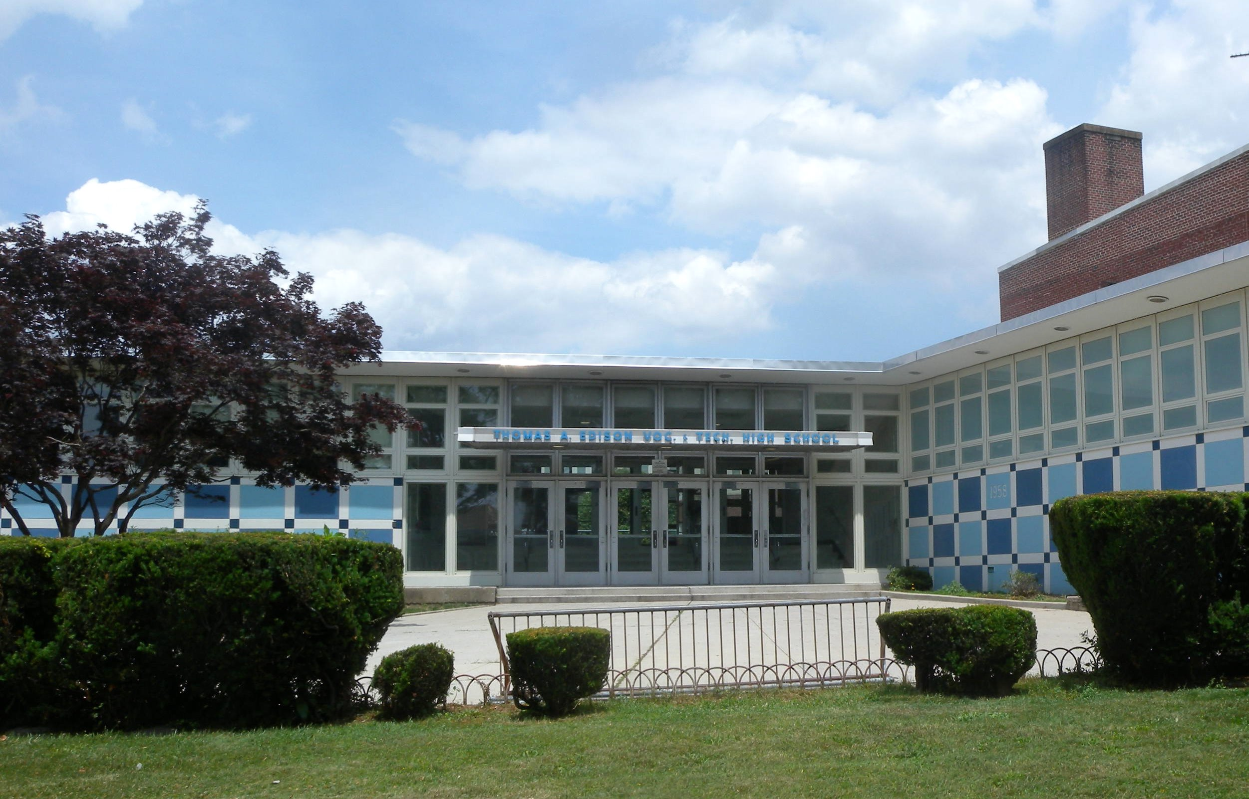 Looking north from 84th Avenue at Edison High on a mostly sunny midday.